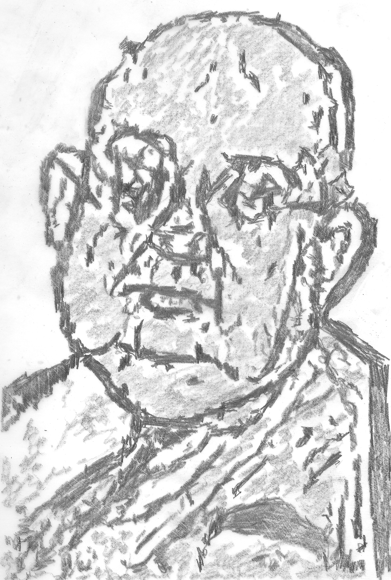 Pencil sketch of A.J. Liebling